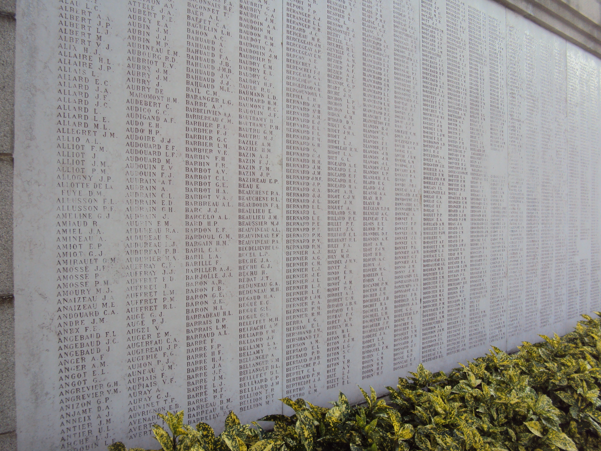 Detail of the World War I memorial in Nantes